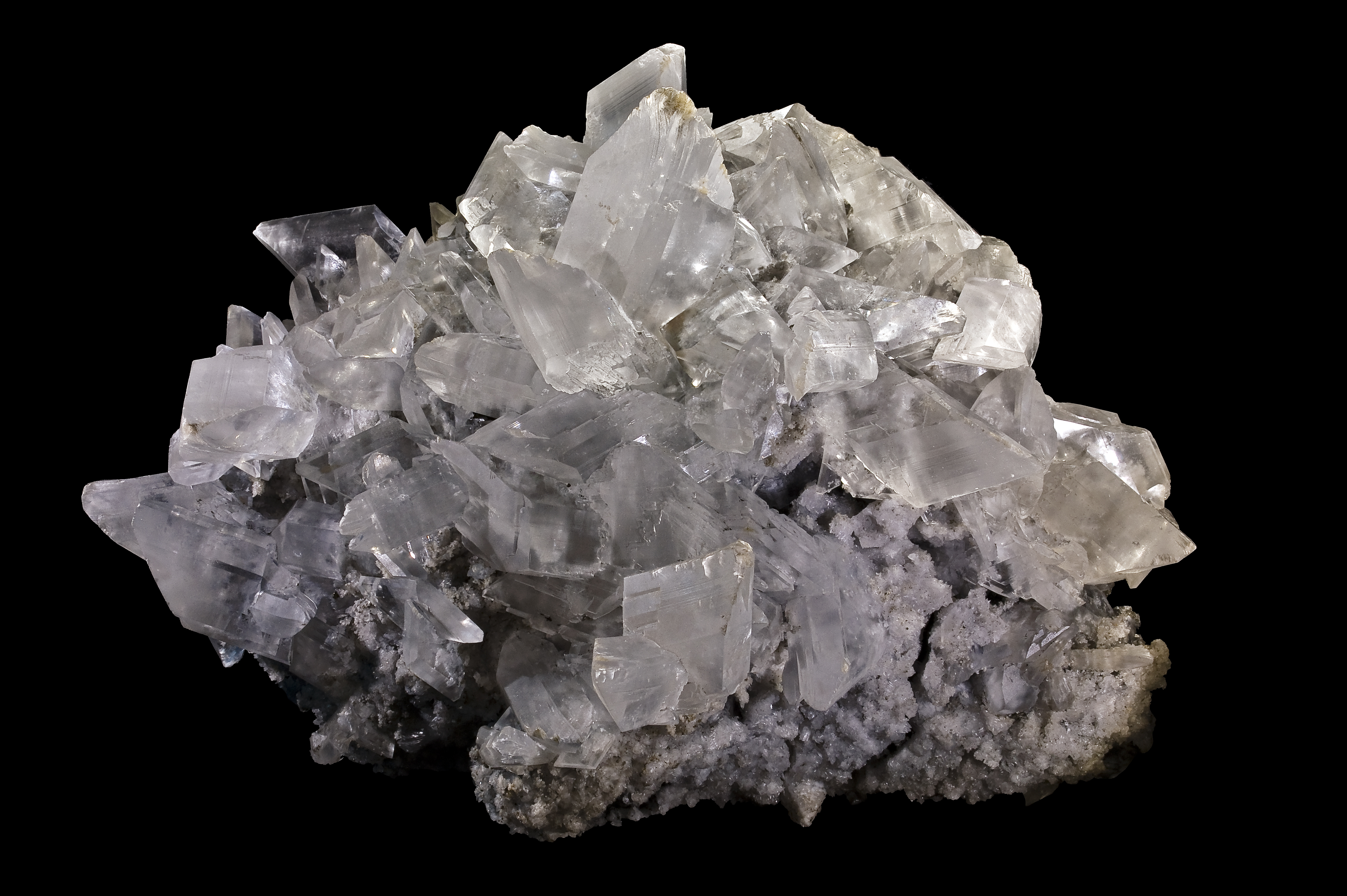 Gypsum Locality : Niccioleta Mine, Massa Marittima, Grosseto Province, Tuscany, Italy Size : 28x19cm